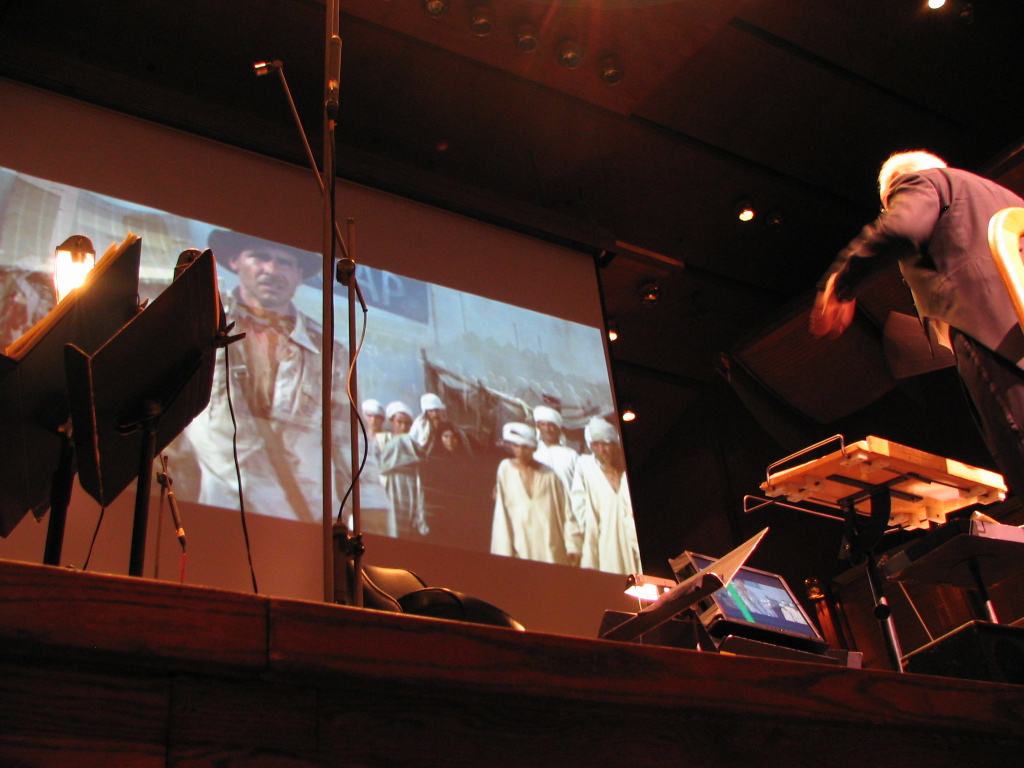 Photo by me of John Williams conducting the score to Raiders of the Lost Ark.